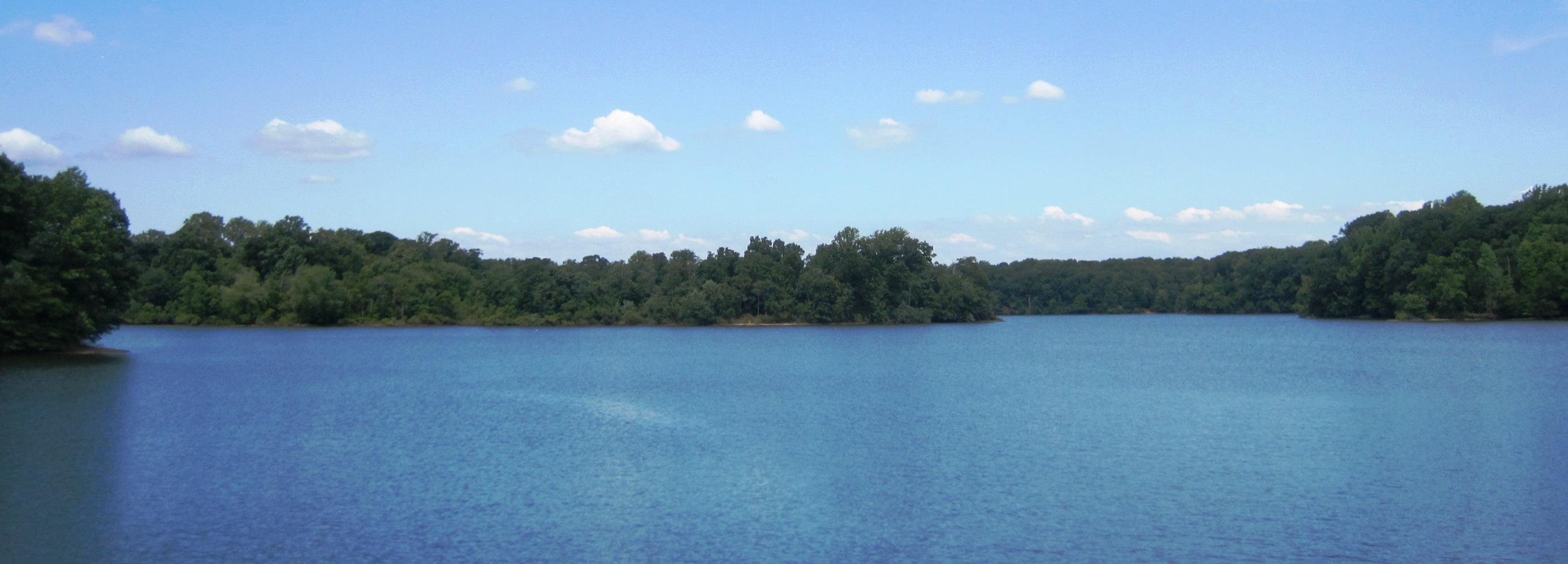 Photo of the Swimming River Reservoir in Colts Neck Township and Middletown Township, New Jersey. Taken from the Phalanx Road (County Route 54) bridge looking north towards Brookdale Community College.